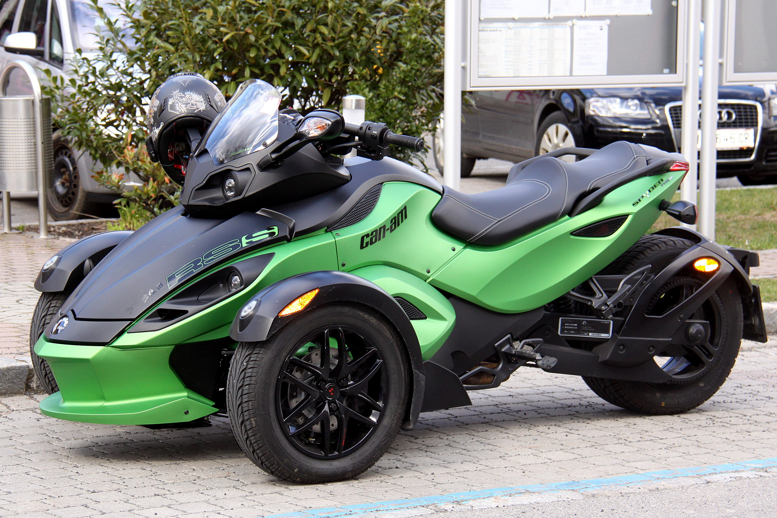 Can-Am Spyder RSS, model 2013